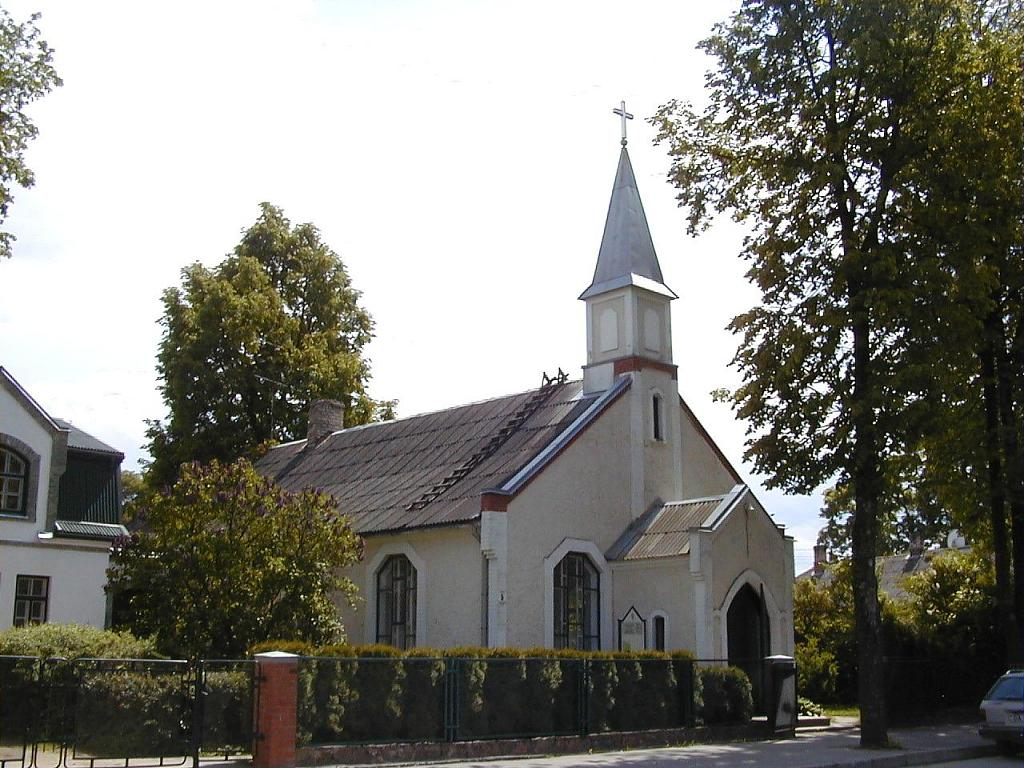 Jēkabpils Baptist Church